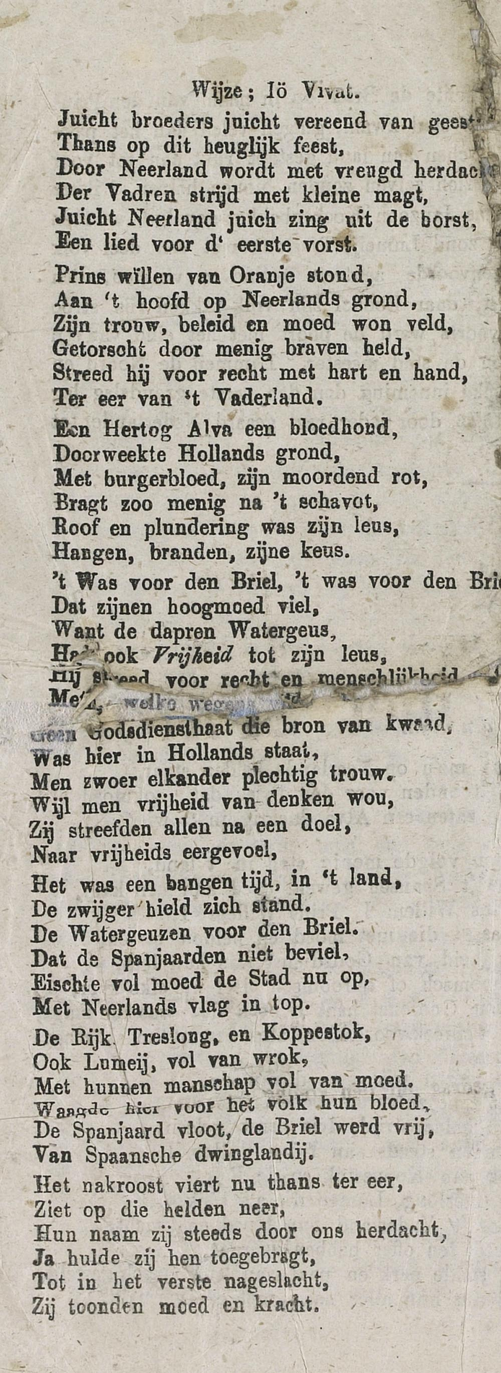 Broadside Ballet with Dutch lyrics to the tune of "Io Vivat"